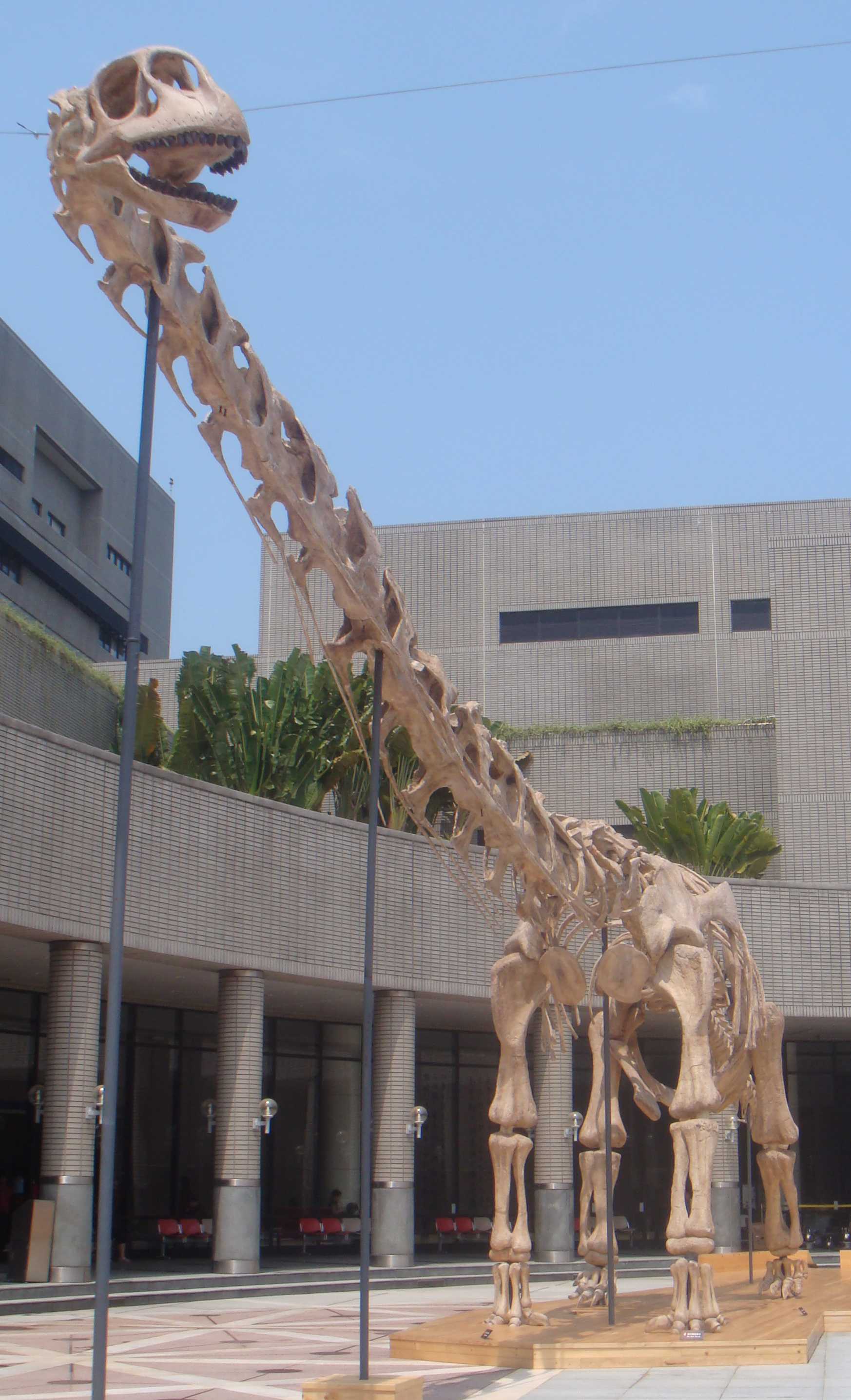 Reconstructed skeleton of Daxiatitan binglingi.